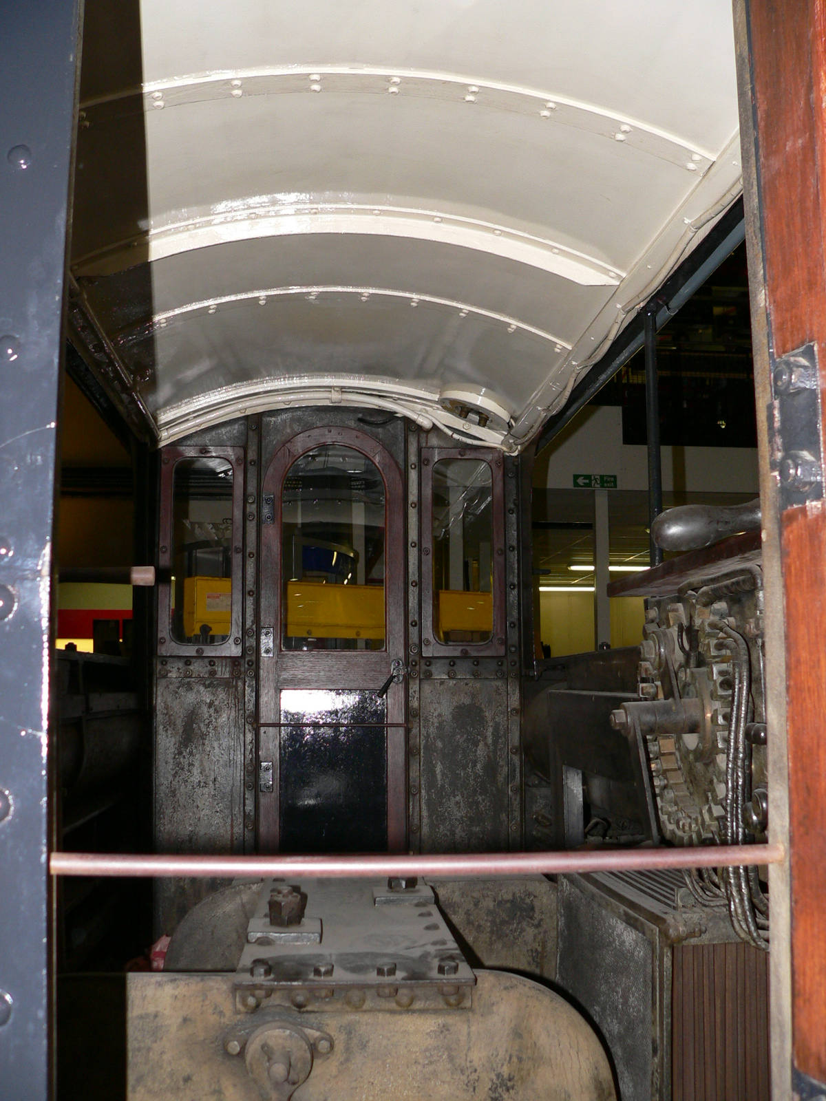 The interior of City & South London Railway locomotive number 13 at London's Transport Museum depot, 22 October 2005